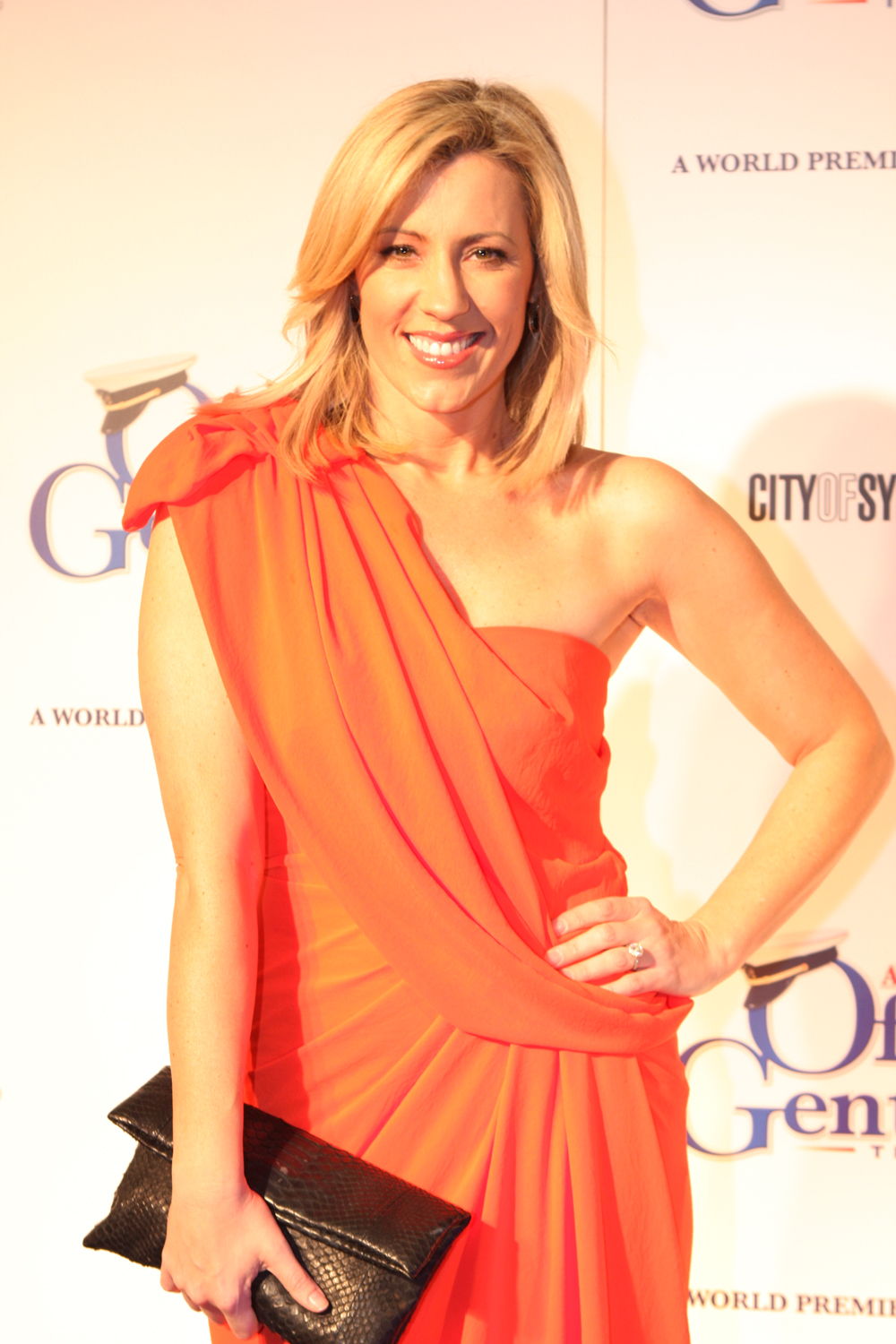 This image shows presenter Kathryn Robinson posing at an event.